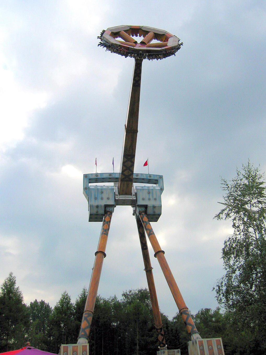 Giant frisbee, from the German company Huss, in family park Bobbejaanland, Belgium (where the attraction is called Sledge Hammer). Picture by Tim Bekaert (August 1, 2005)